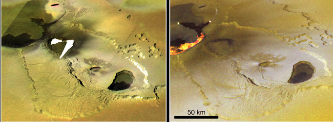 The detection of very-high-temperature volcanism—hotter than any terrestrial lavas currently erupting—is one of the most spectacular discoveries by the Galileo mission at Io. The images are of an area called Tvashtar and show curtains of lava fountains erupting on the surface. They were taken by the Galileo spacecraft on November 26, 1999. The active region is approximately 25 km (15.5 miles) long and 1 km (0.6 mile) high. The radiant energy emitted from the lava curtain was so intense that it overpowered the camera's detector and it is registered only in white.